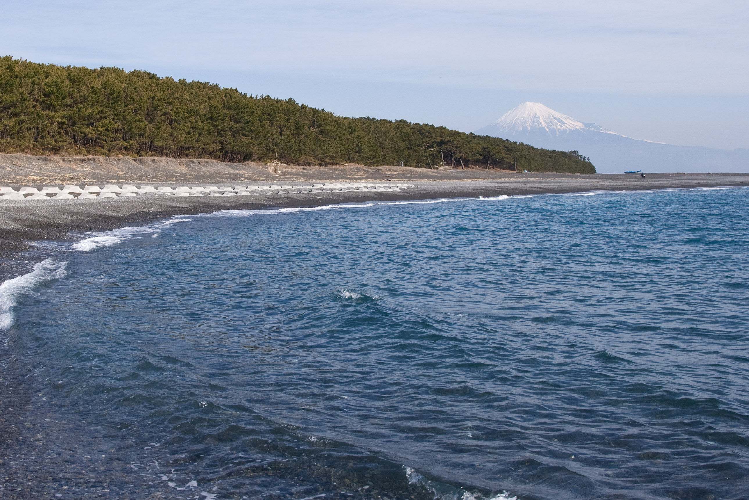 Mount Fuji as seen from Miho Coast in Shimizu ward, Shizuoka City, Shizuoka Pref., Japan.